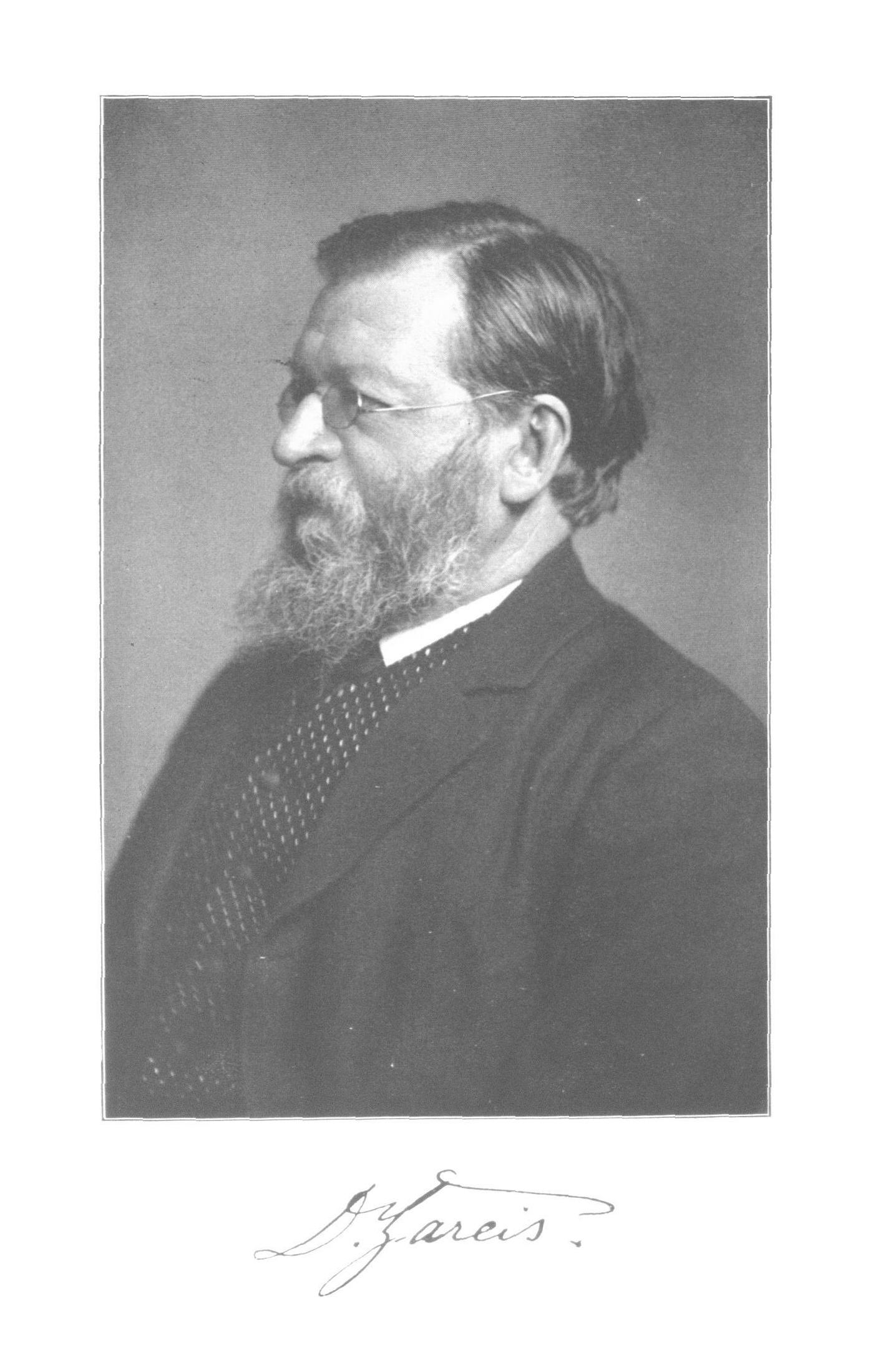 Portrait of Carl Gareis.